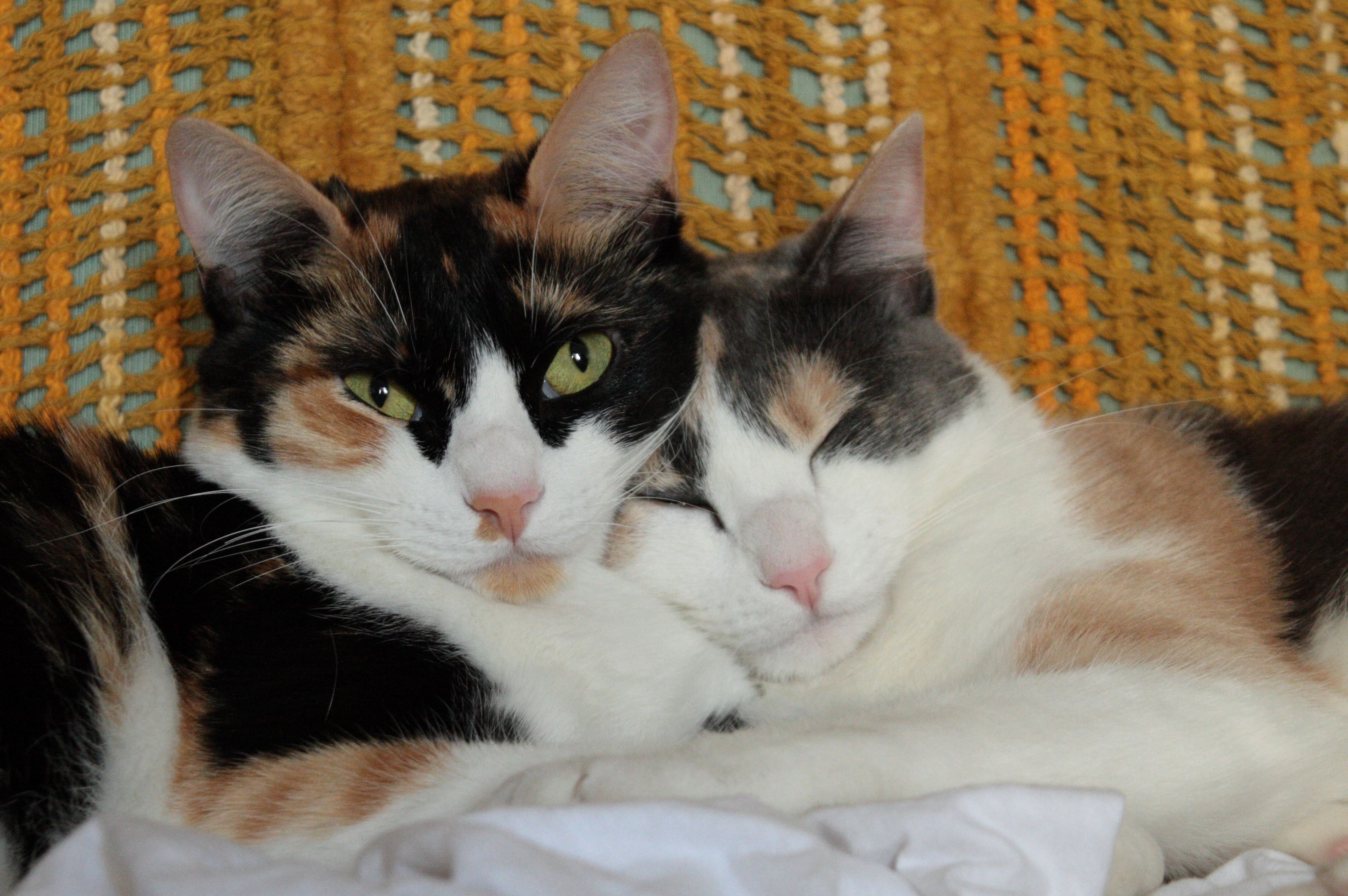 Two female cats (sisters) illustrating the difference between the calico and dilute calico coats.